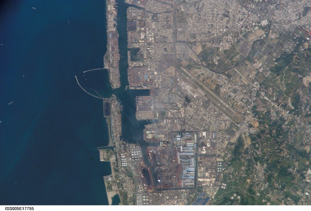 Date: 10.18.2002 Title: TAIWAN/KAO-HSIUNG, AIRPORT Description: TAIWAN/KAO-HSIUNG, AIRPORT ID: ISS005-E-17755 Credit: NASA Johnson Space Center - Earth Sciences and Image Analysis (NASA-JSC-ES&IA)